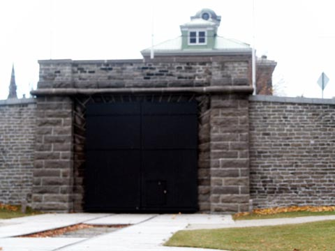 Canada's First Railway tunnel, Brockville. Built 1854-1860 for the Brockville & Ottawa Railway November 4 2004 by user:carlb